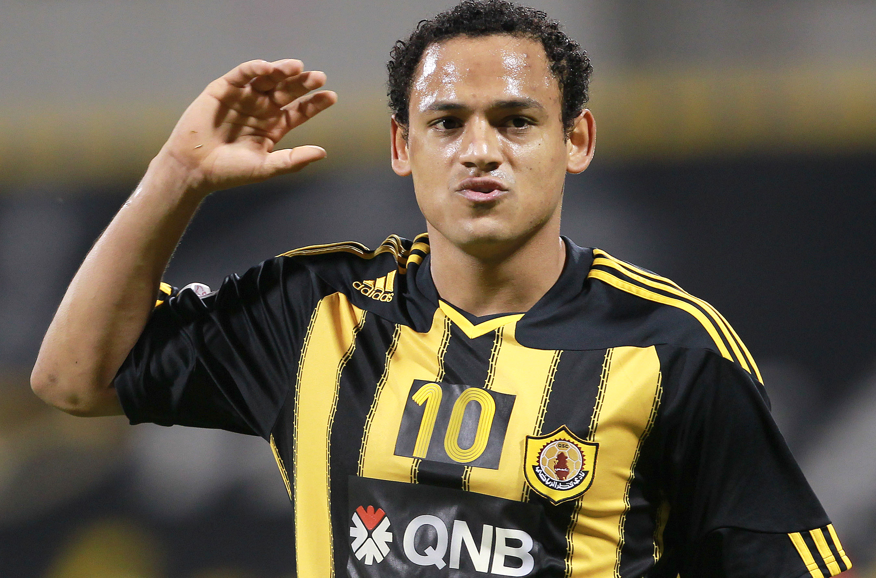 Qatar Sports Club's Brazilian professional Luis Marcinho during a Qatar Stars League match. Pic by AK Bijuraj